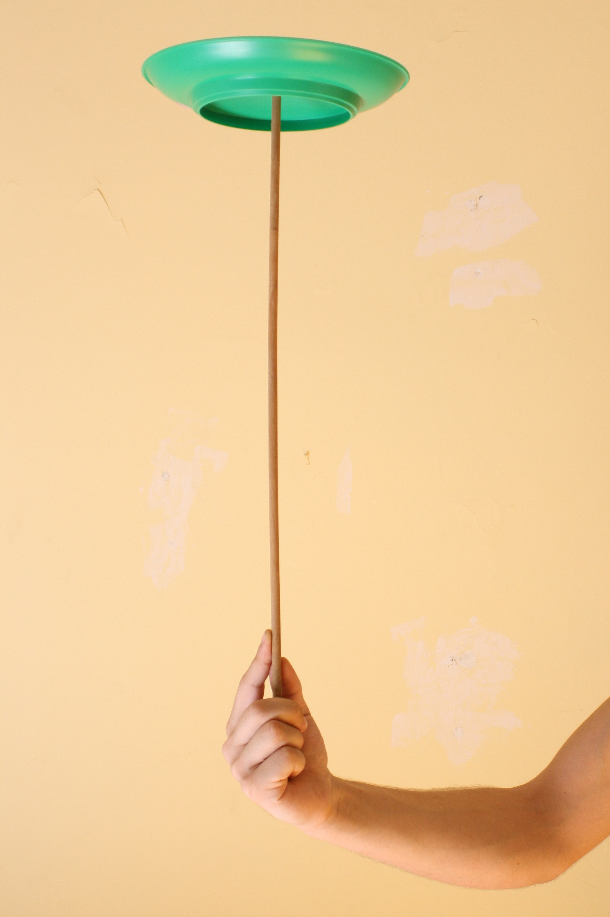 chinese plate (juggling)